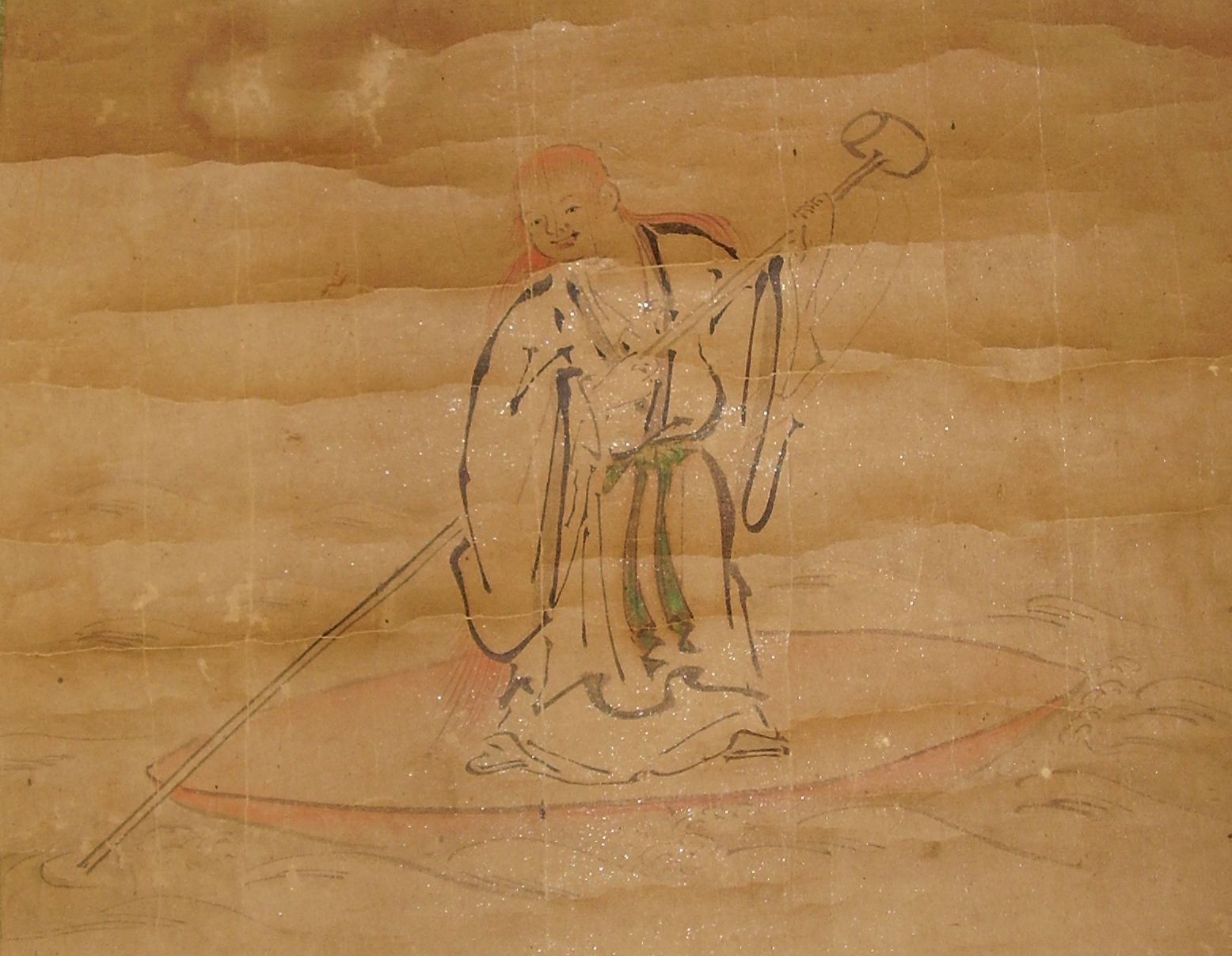 Detail shot from a painting of a Shōjō standing on an over-sized saucer-style sake cup, using a very long-handled sake ladle to pole through a sea of what may be either sake or water. Painting; sumi ink & water colours(?) on paper with (what appear to be) fine flecks of mica. Signed & sealed as by Kano Tsunenobu (1636-1713); unverified, plausible (research needed!). Painting is loosely "Kano school", & (at latest) 19th century or earlier (to accredited artist's lifetime). Private collection; fam. Wittig et cie. Working print of detail from the painting, for possible use in the relevant wikipedia articles - scans pending This is a "working print", please feel free to upload an improved edit of same!